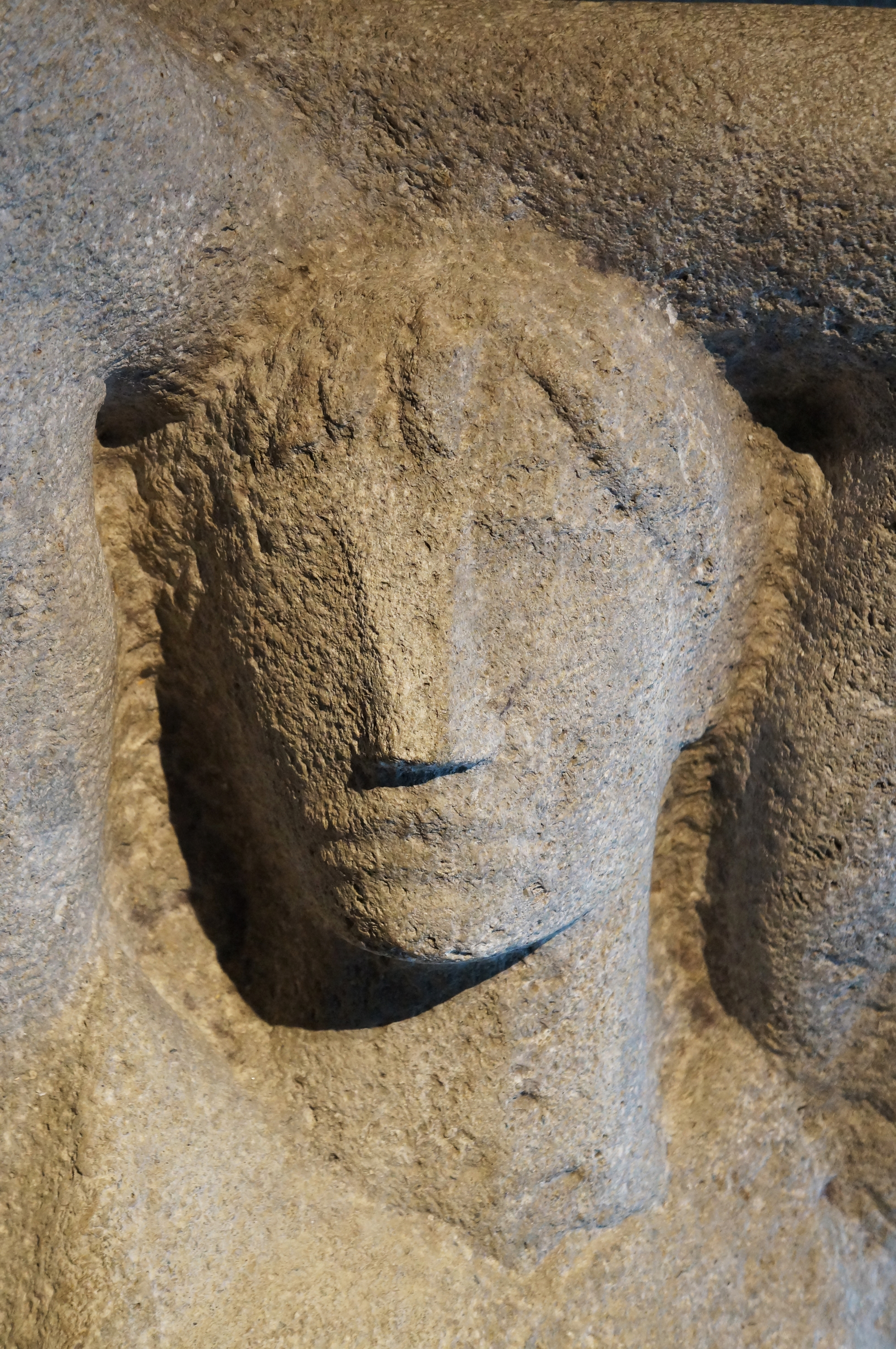 stone sculpture by fritz wotruba